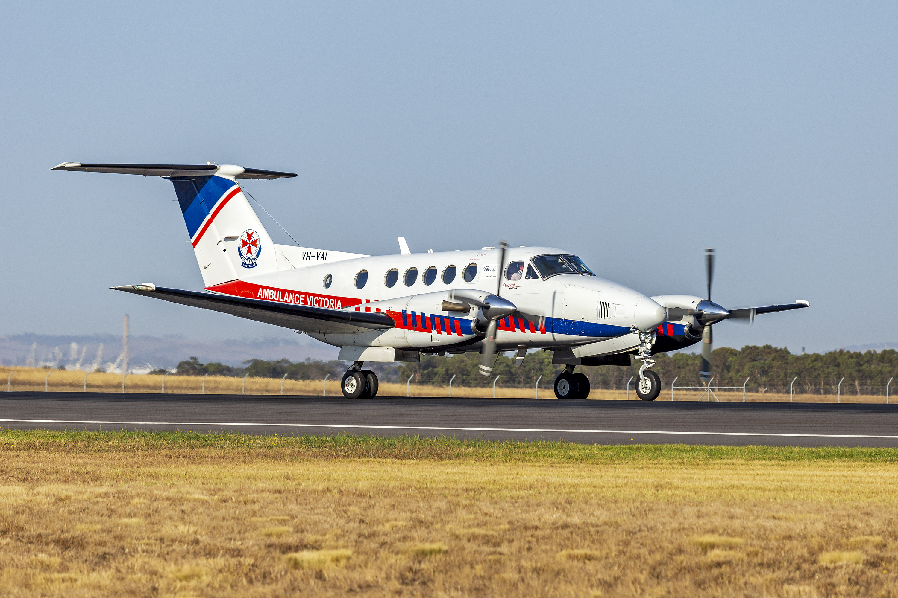 Pel-Air Aviation, contracted for Ambulance Victoria, (VH-VAI) Raytheon Beech Super King Air B200C taxiing at Avalon Airport during the 2019 Australian International Airshow.